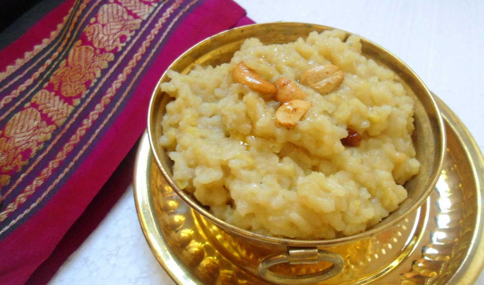 Sweetened rice with jaggery which is prepared during the harvest festival of Tamilnadu